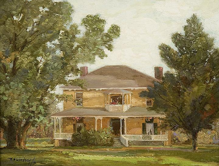 Lindsay residence, Brockville, 1916. Oil on canvas. 25.5 cm x 33 cm.